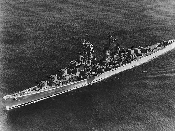 The U.S. Navy light cruiser USS Tucson (CL-98) underway, circa the later 1940s.